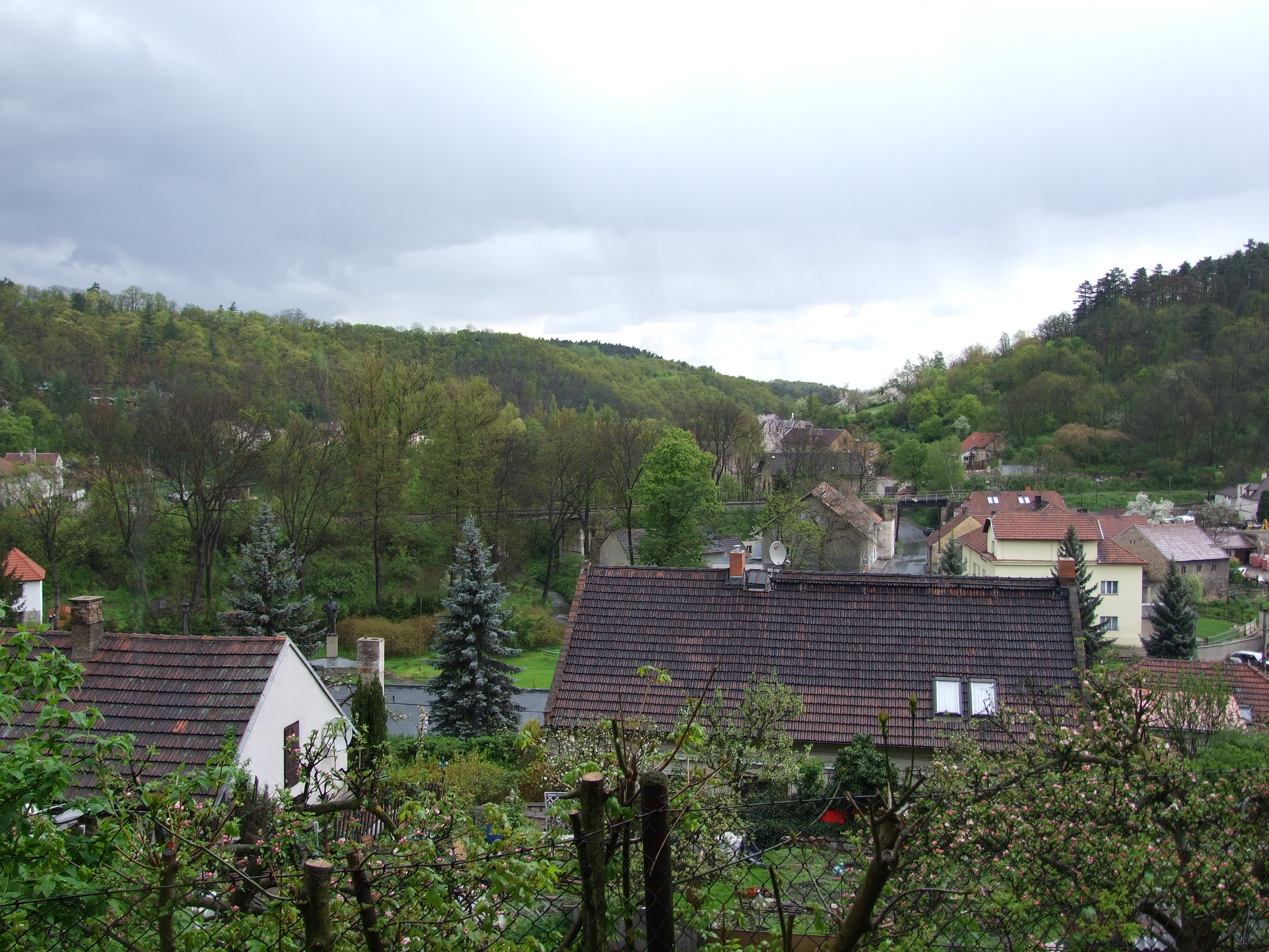 Zákolany village, Kladno District, Central Bohemian Region, Czech Republic. Centre of the village as seen from SSW, from road ascending to Budeč. Valley of the Zákolanský potok stream can be seen in the background.